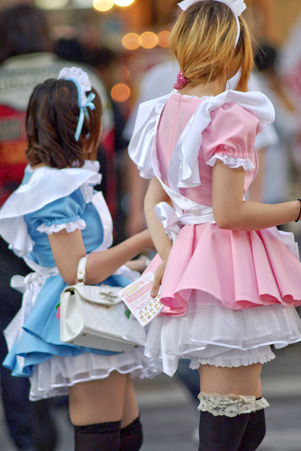 ドコモショップ秋葉原中央通り店前 メイド2名, Location: Akihabara